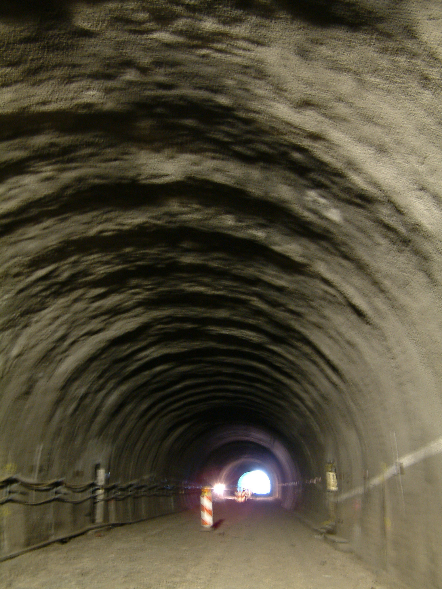 Weinsberg railroad tunnel between Heilbronn and Weinsberg, interior when the railway was upgraded for Stadtbahn (tram-train) operation